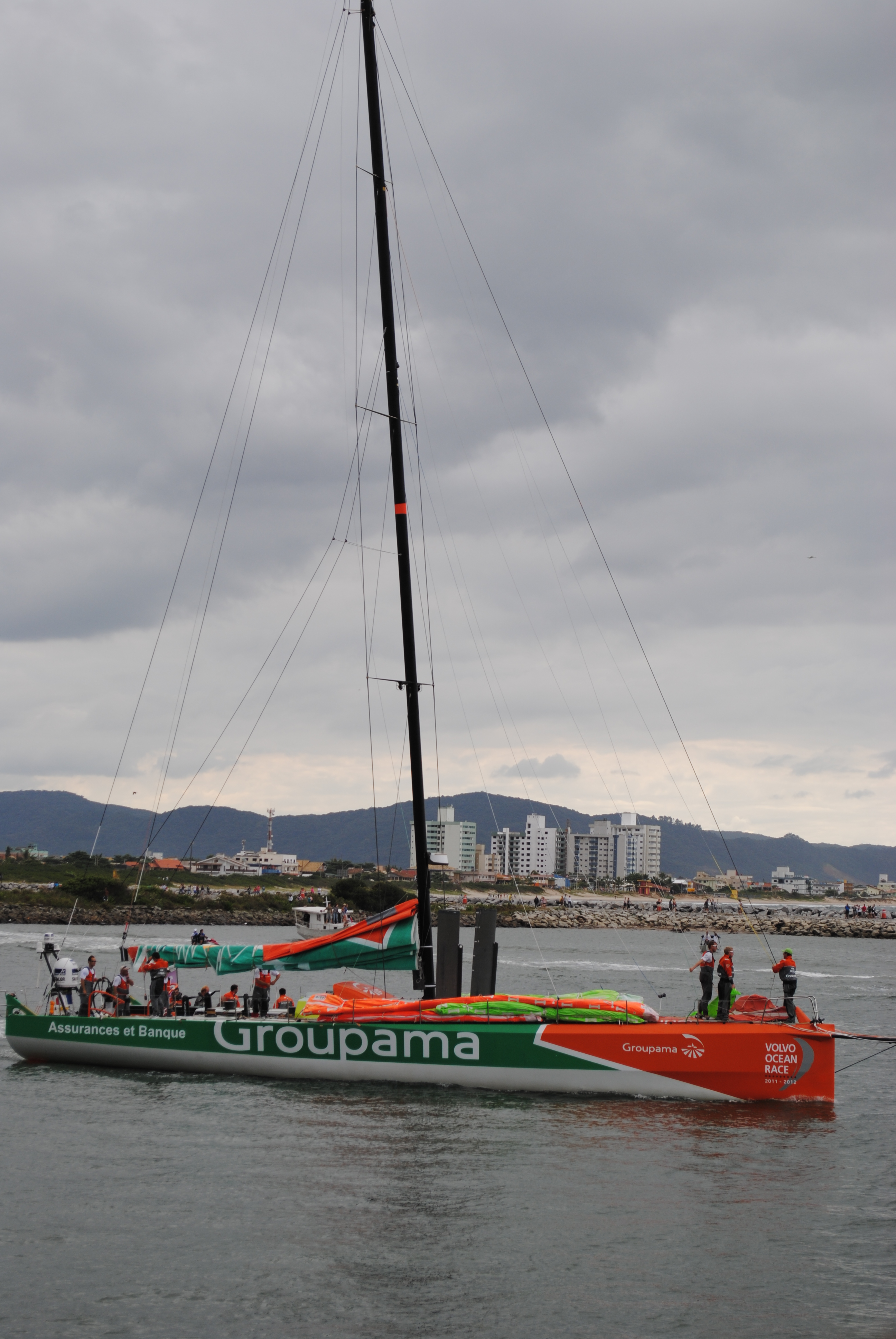 Groupama 4 in Itajaí during the Volvo Ocean Race 2011-2012.